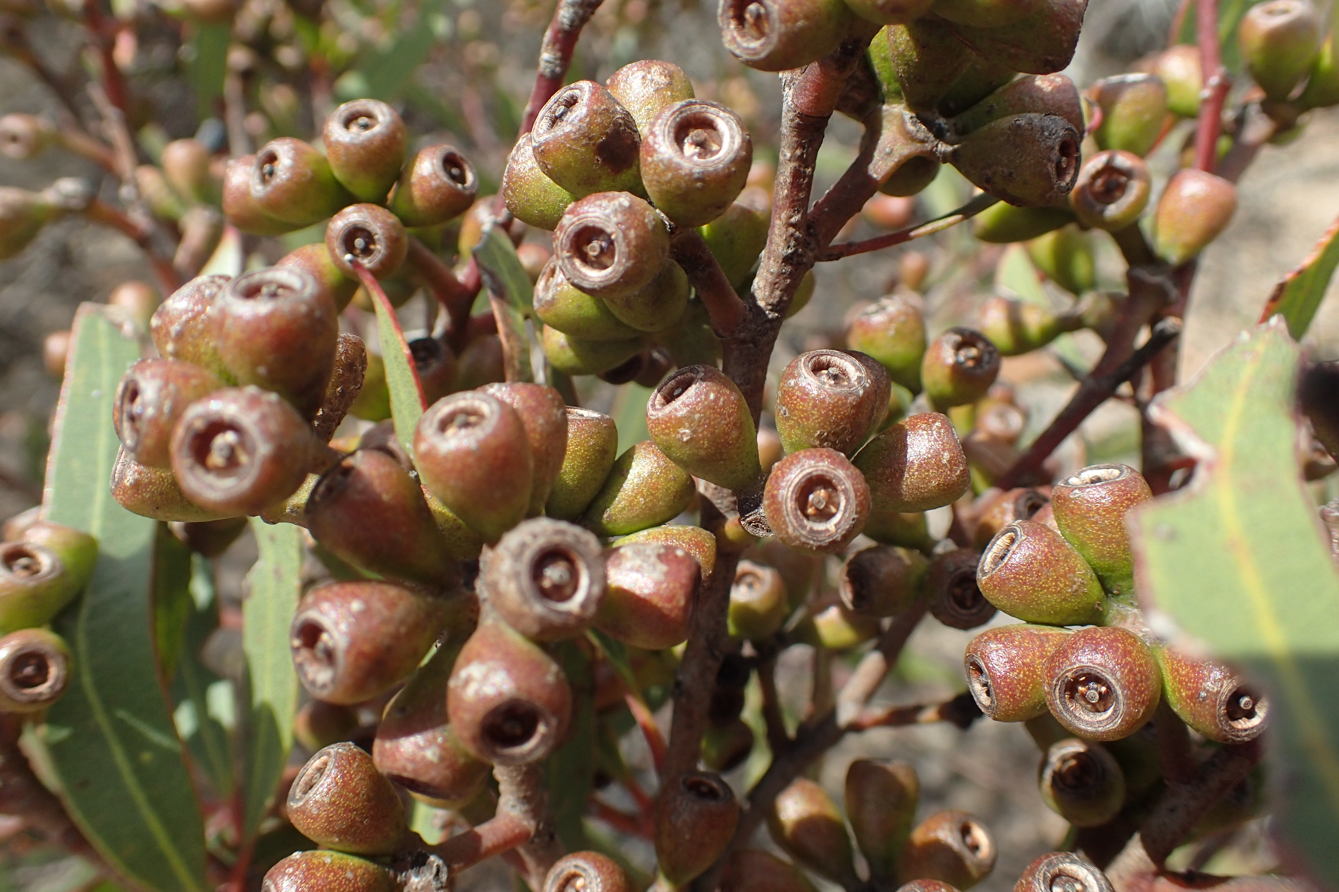 Fruit of Eucalyptus dissimulata near the Old Ongerup Road crossing of the Hammersley River